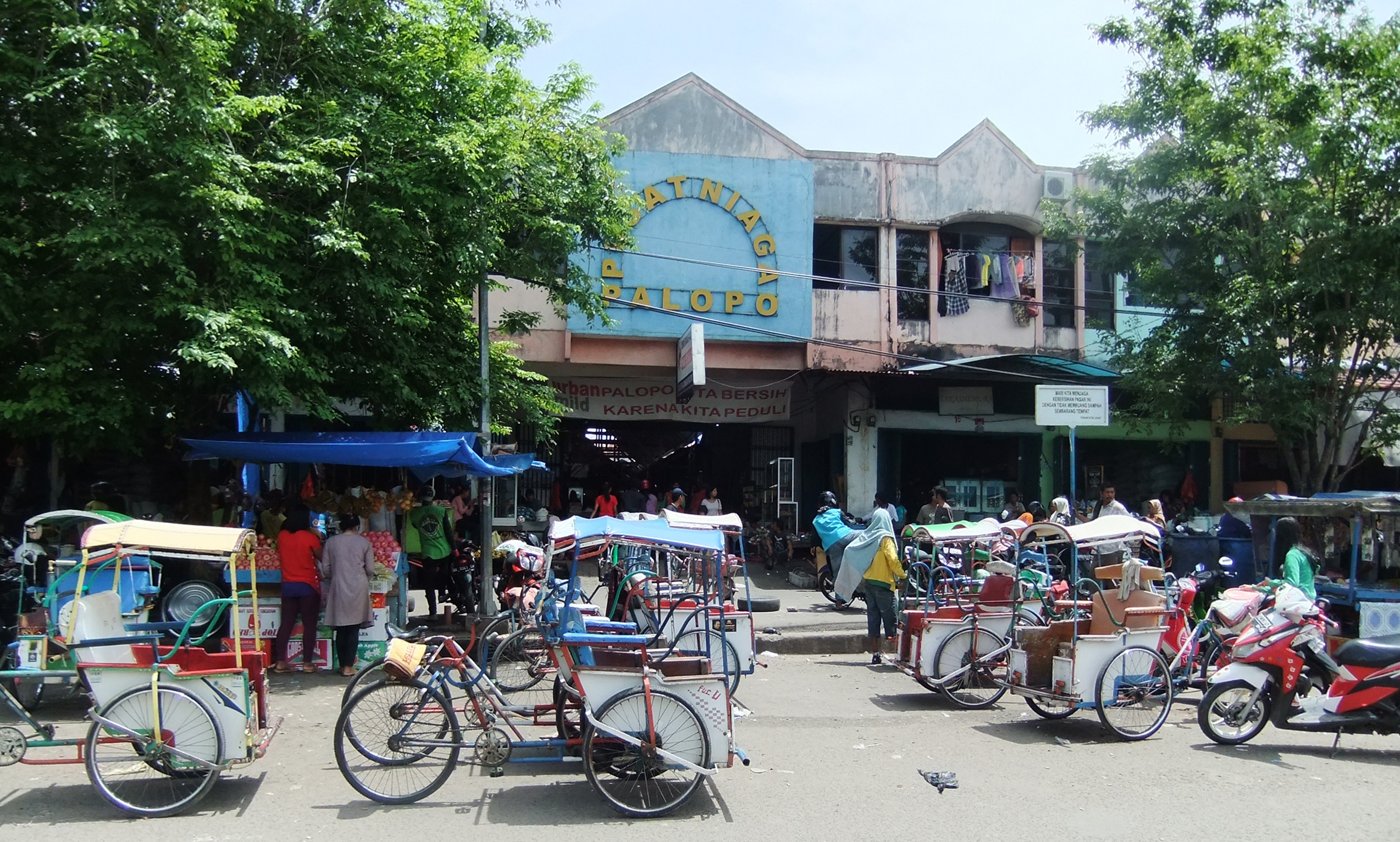 Local market at Palopo Regency South Sulawesi, Indonesia